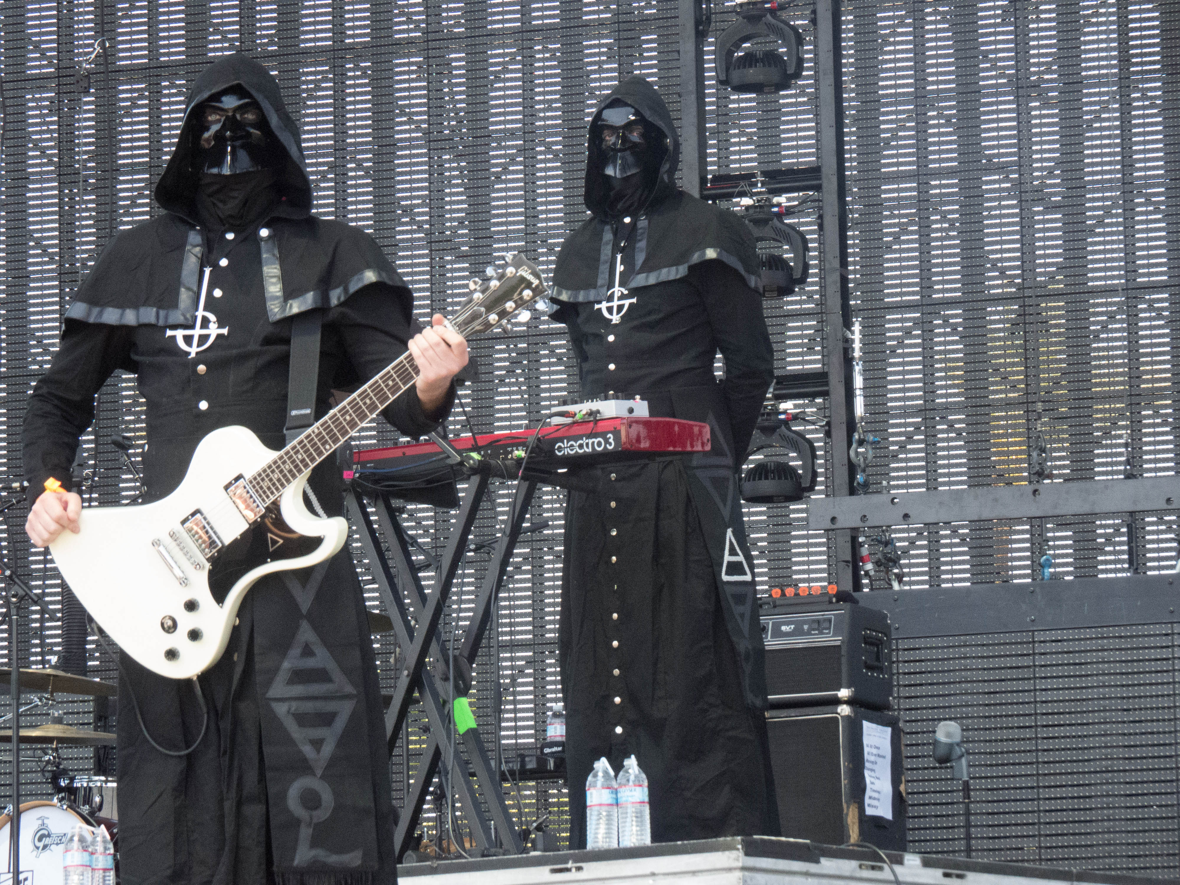 Ghost B.C. Coachella Valley Music and Arts Festival (2013).